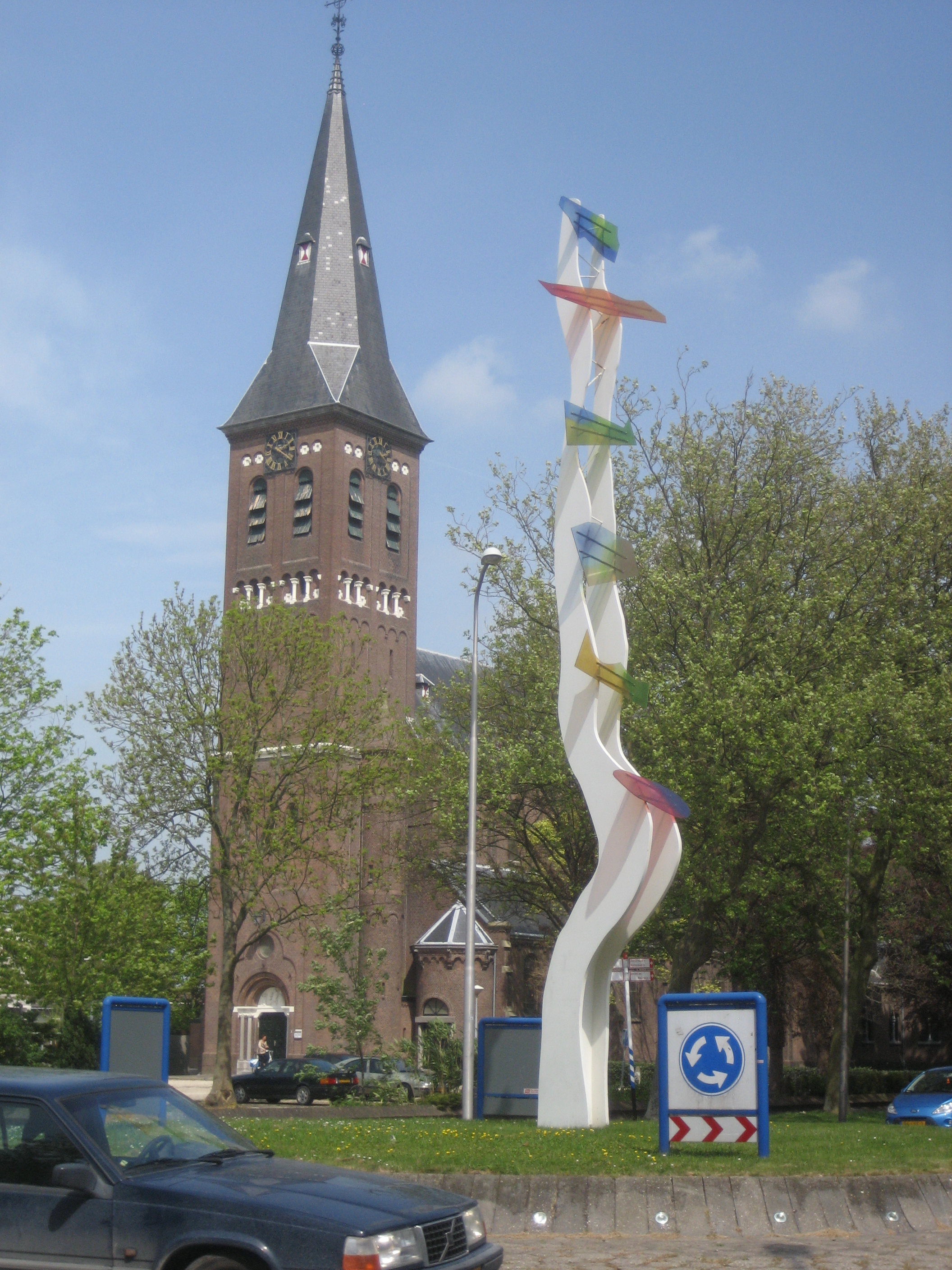 St. John the Baptist Church in Pijnacker (the Netherlands). Artwork at the roundabout by Joost van Santen